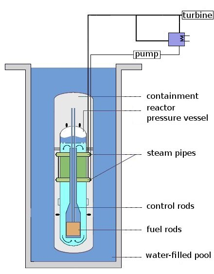 A schematic of a pumpless light water reactor. This particular type is a NuScale Power mini nuclear reactor, . The schematic was based on the Nuscale Power image, aswell as an image at . Note that this light water reactor is quite similar to reactors used on warships (see NGC text). Not sure though whether the pond is closed or in connection to the sea. Also not sure whether the coolant water becomes radioactive after a while or not.